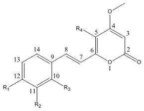 Drawing of the general structure of the kavalactones, with numbering.